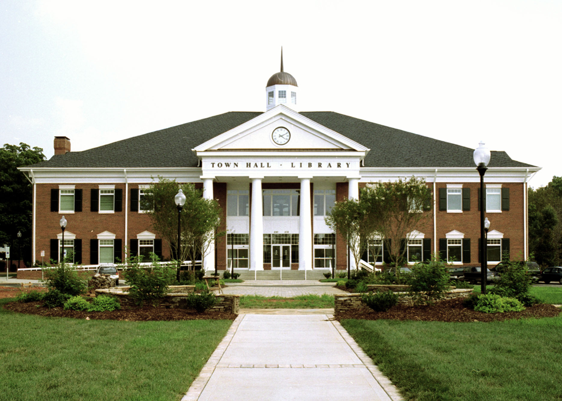 Matthews Branch Library